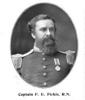 Frederick Edward Pirkis, husband of author Catherine Louisa Pirkis and social and animal rights activist.